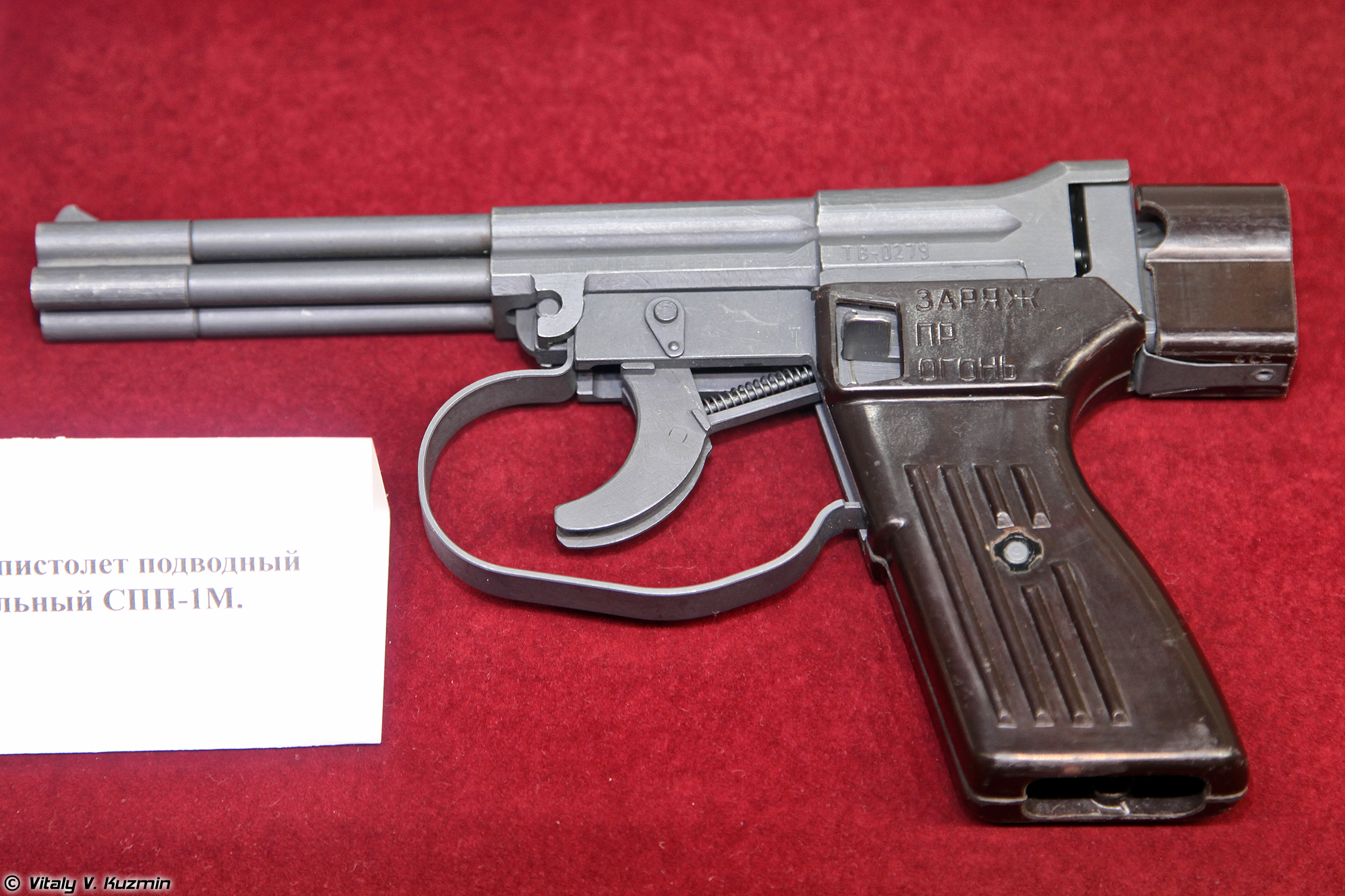 Underwater pistol SPP-1M - Tula State Museum of Weapons